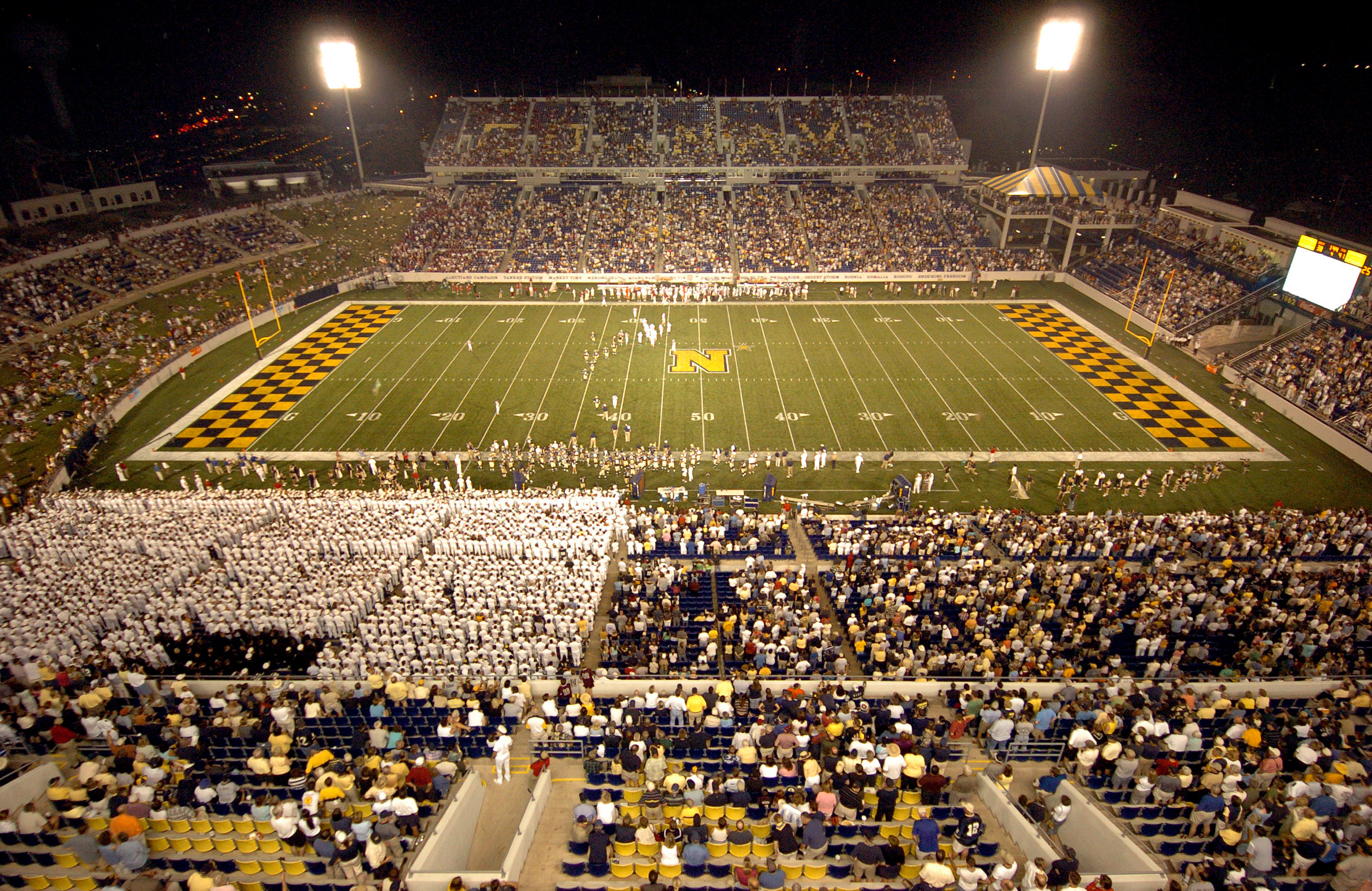 The U.S. Naval Academy Midshipmen play the Stanford Cardinal at Jack Stephens Field at Navy-Marine Corps Stadium.